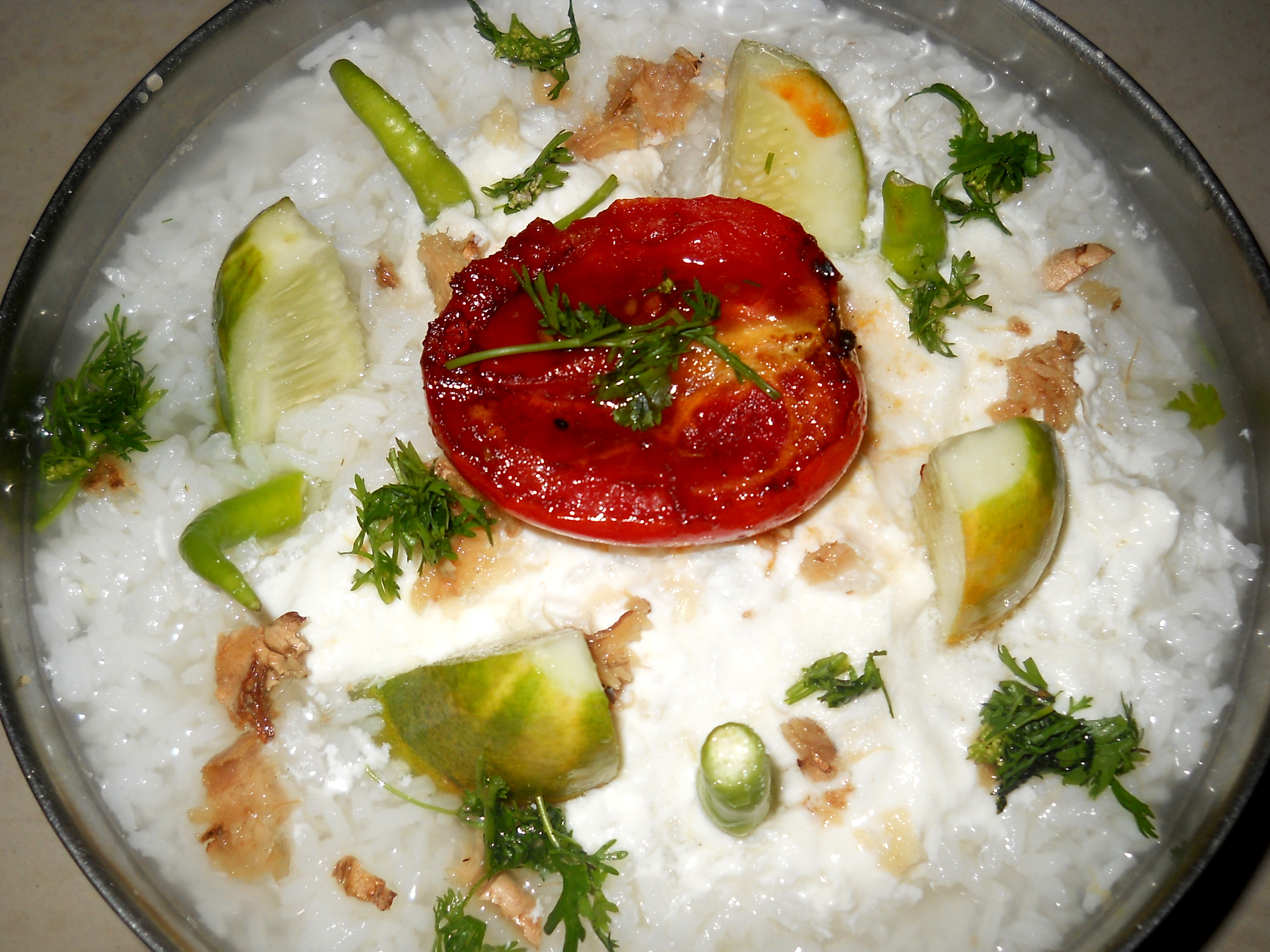 Odia cuisine Pakhala, made of rice, water and seasoned with cumin, curry leaves, chillies, lemon and tomatoes.